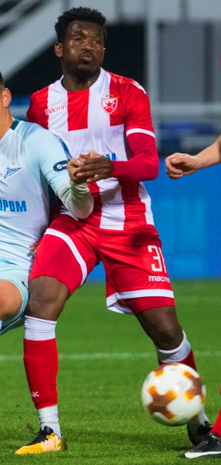 07.02.2018. Турция, Анталия, стадион «Мардан». Вторые зимние «Газпром» — тренировочные сборы: товарищеский матч «Зенит» — «Црвена Звезда».